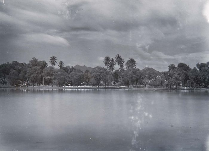 Pond